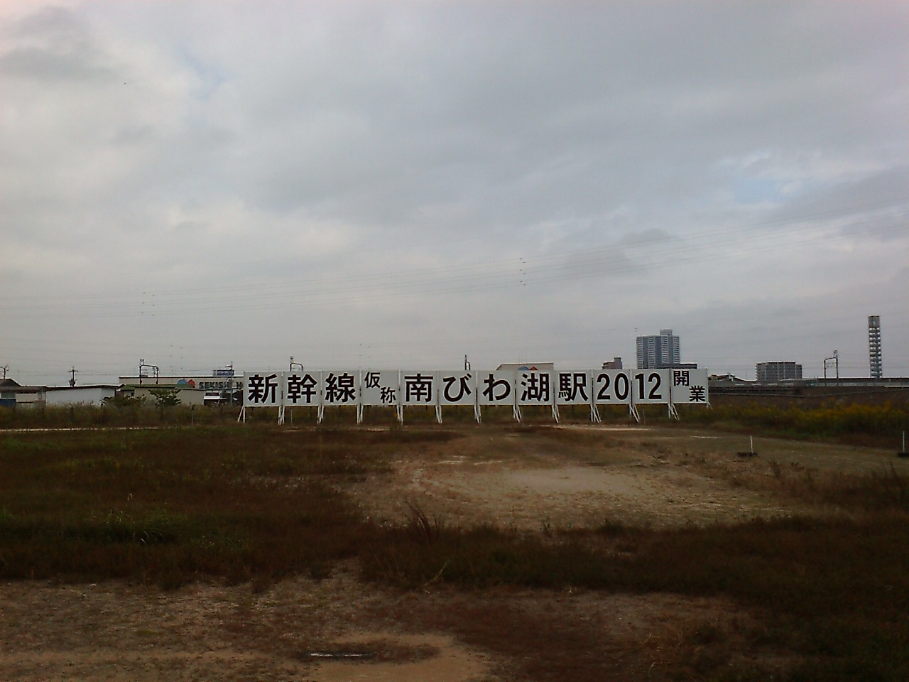 Shinkansen Minami-Biwako Station Planned Construction Site